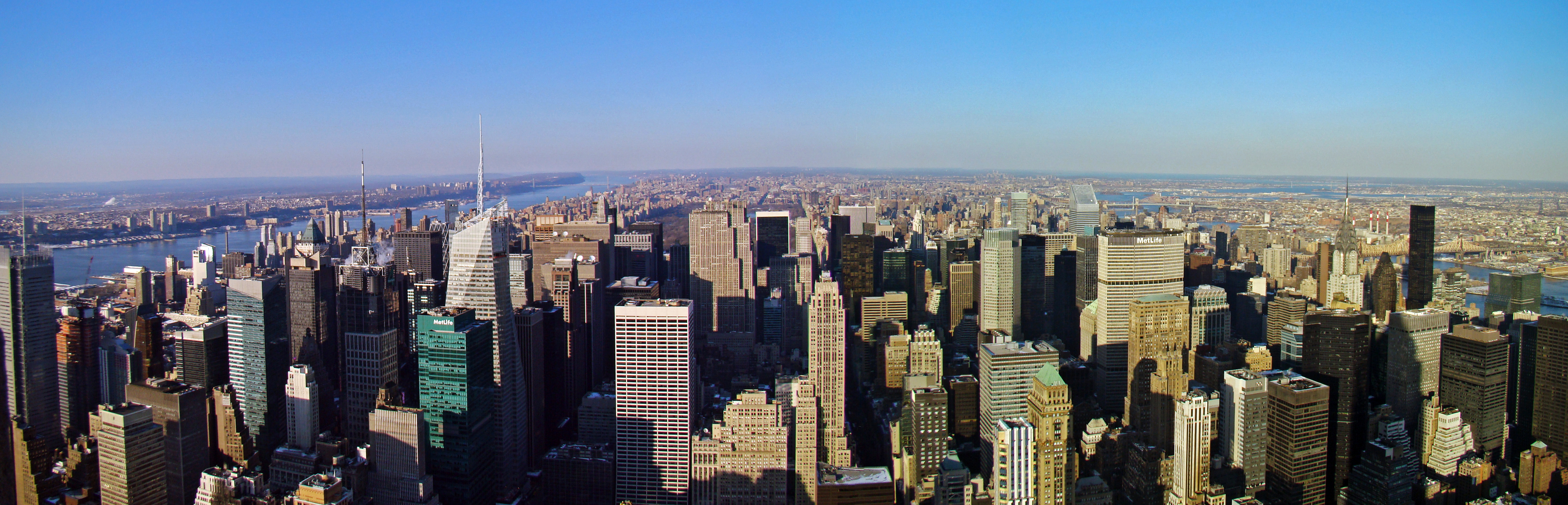 View of Midtown Manhattan, New York City, from the Empire State Building